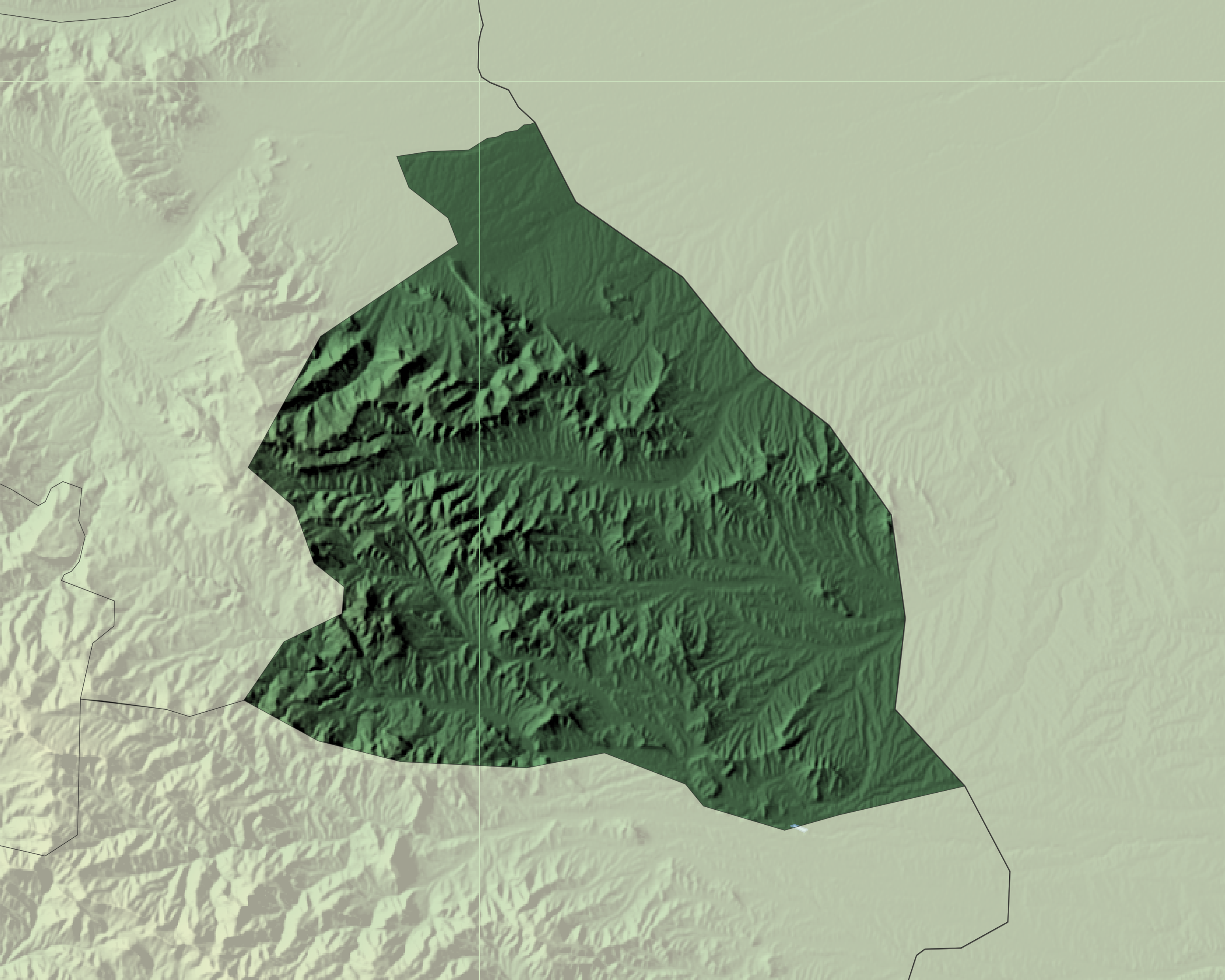 Hillshaded map of Martuni region of Artsakh Republic